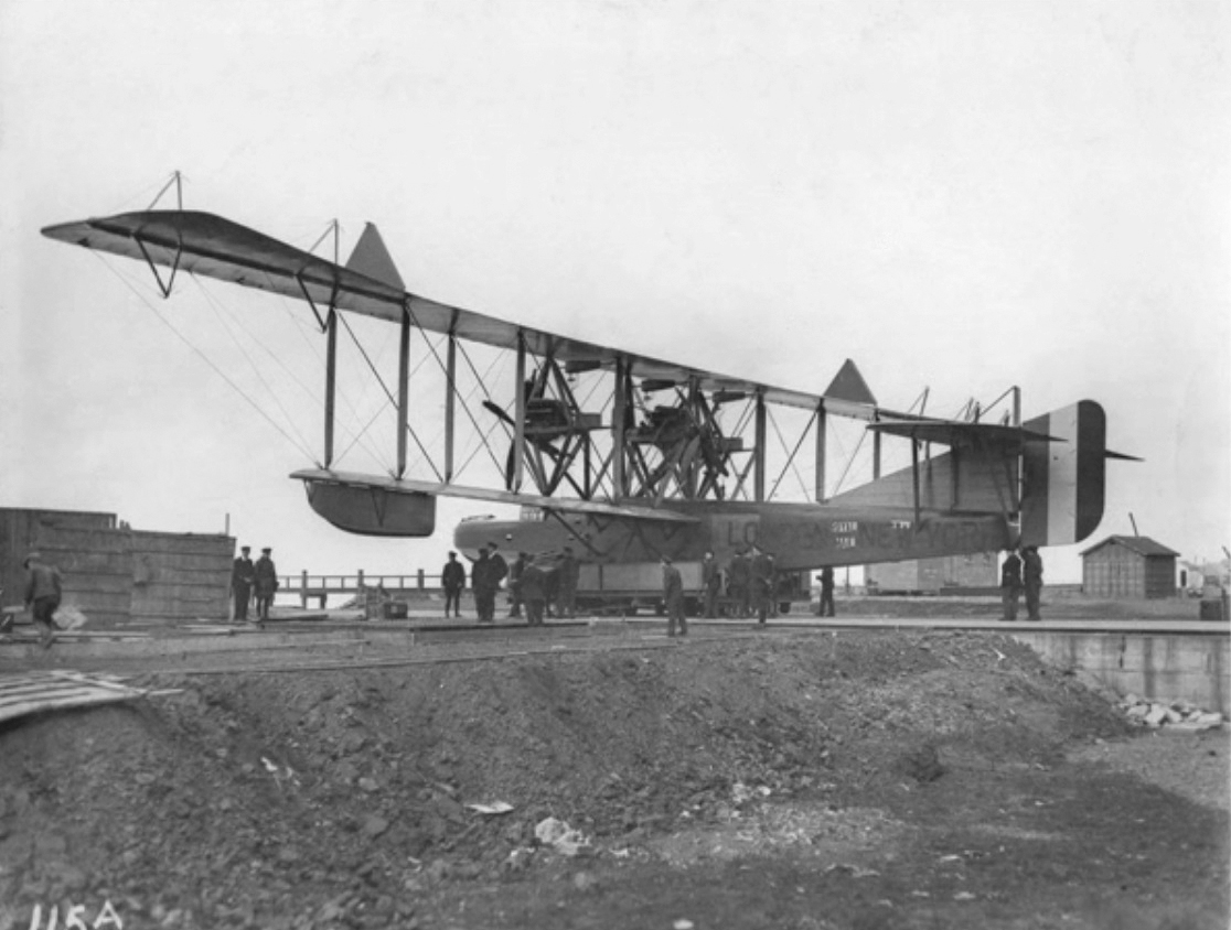 Photograph of a Felixstowe Porte baby from the rear left.